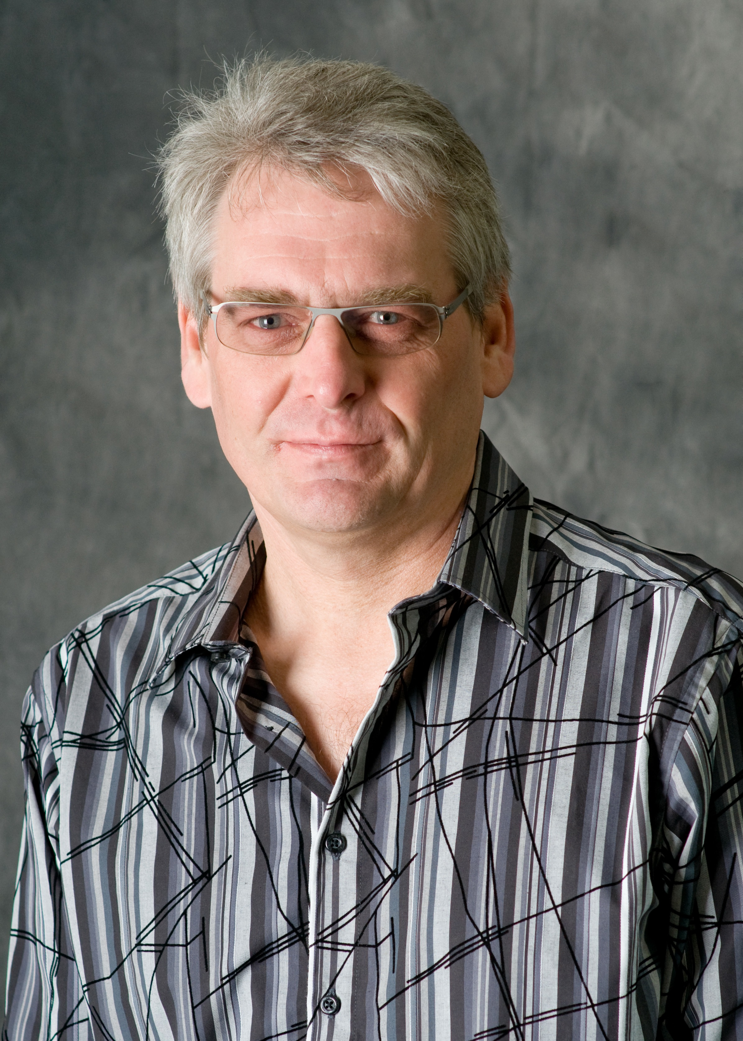 Photograph of Gernot Heiser